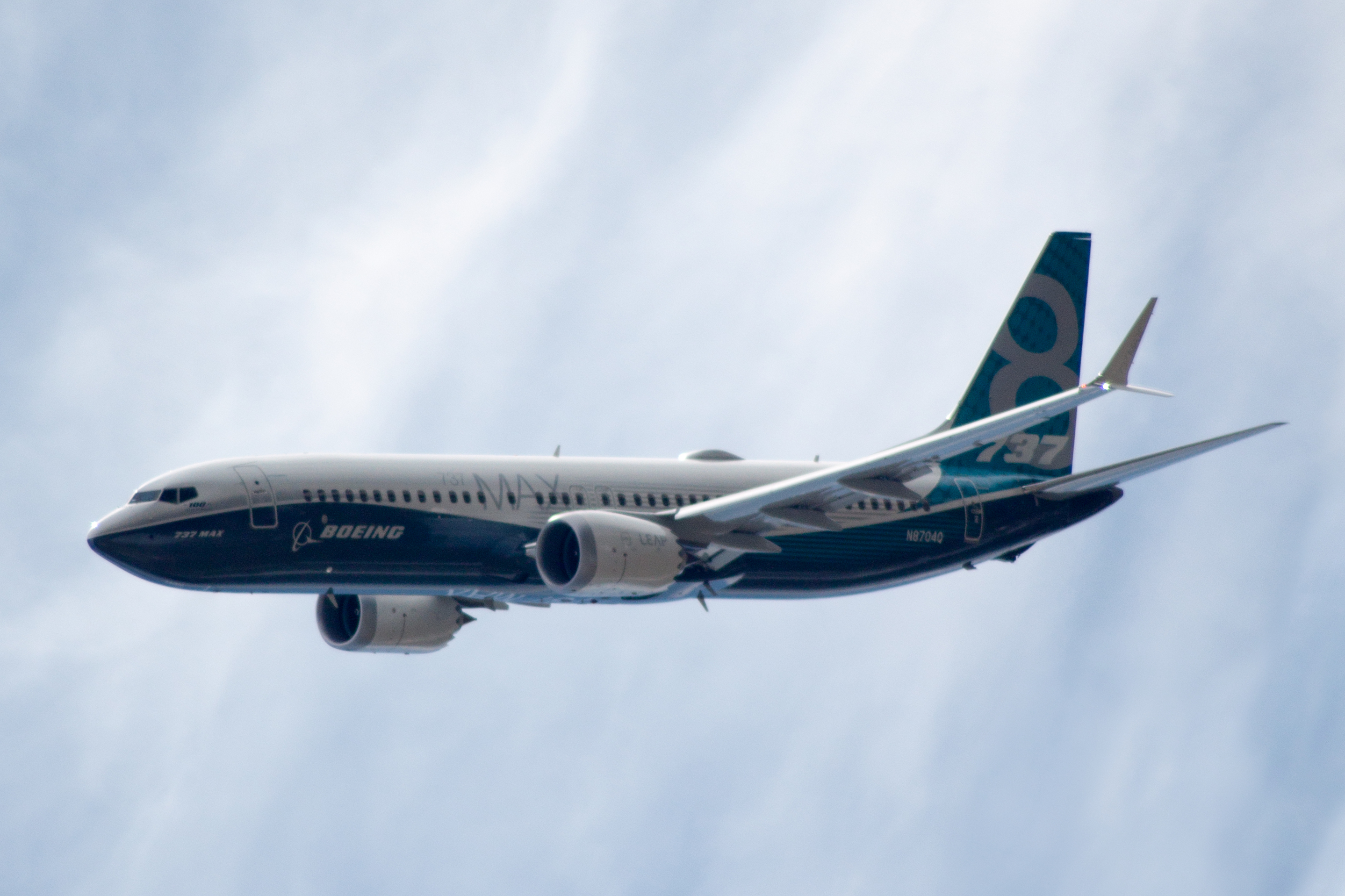 A Boeing 737 MAX photographed during a practice session before a flight display at the 2016 Farnborough Airshow